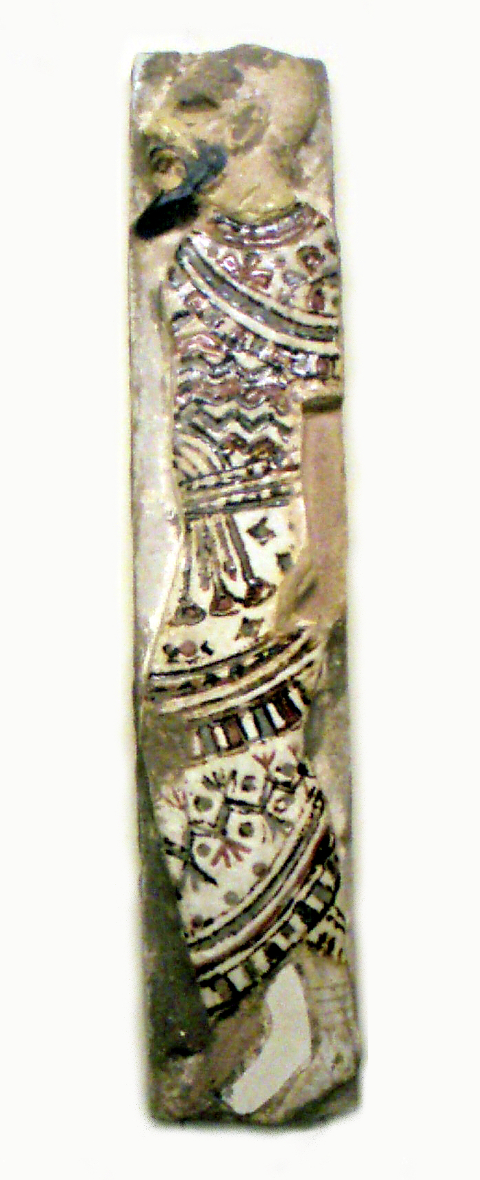 Amorite man from the royal palace adjacent to the temple of Medinet Habu, from the reign of Ramesses III (1182-1151 B.C.)